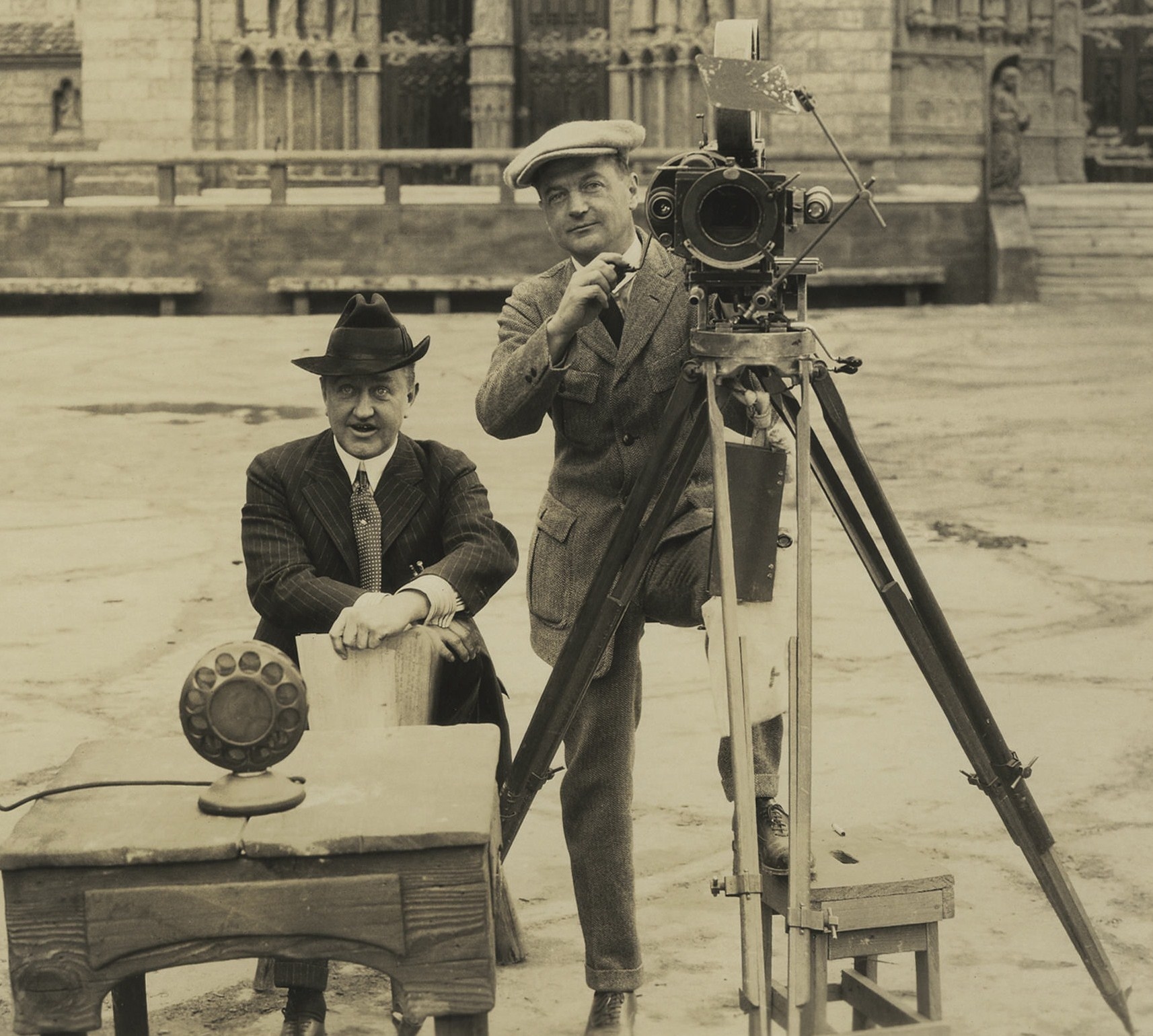 director Wallace Worsley & cinematographer Robert Newhard on the set of The Hunchback of Notre Dame - publicity still (original image cropped : see source)